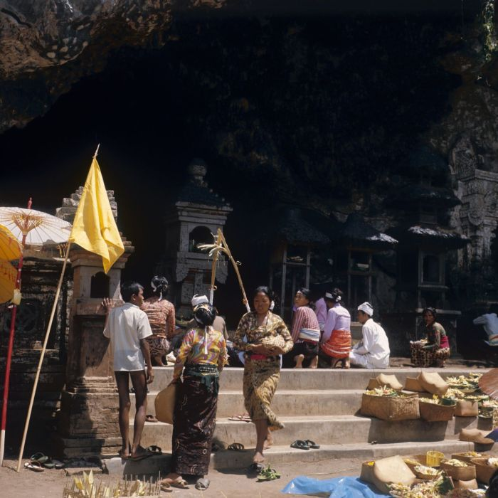 Offering altars at the Pura Goa Lawa or Bat Cave Temple near Kusamba